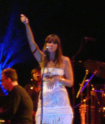 Cat Power!